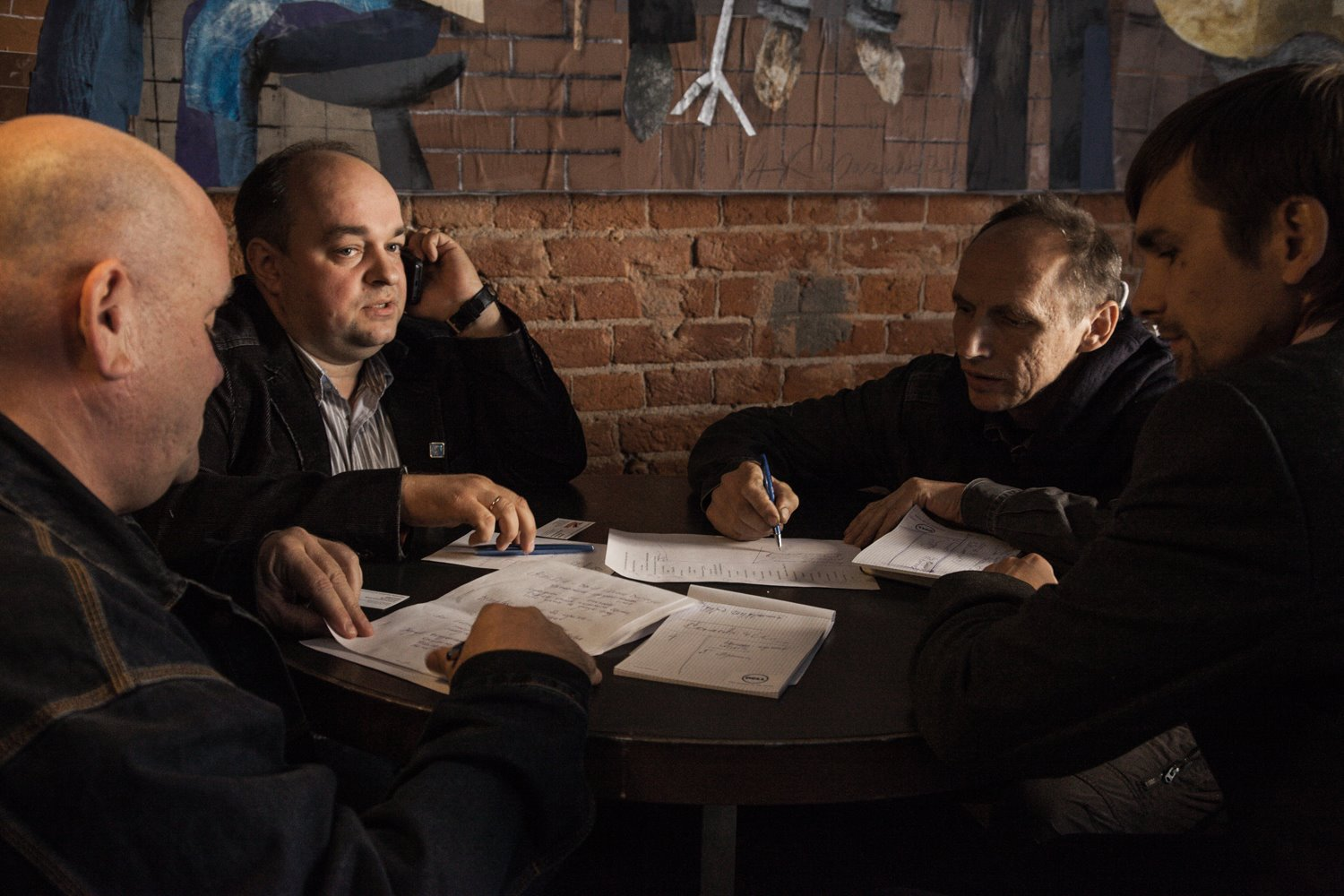 jury festival sky cinema